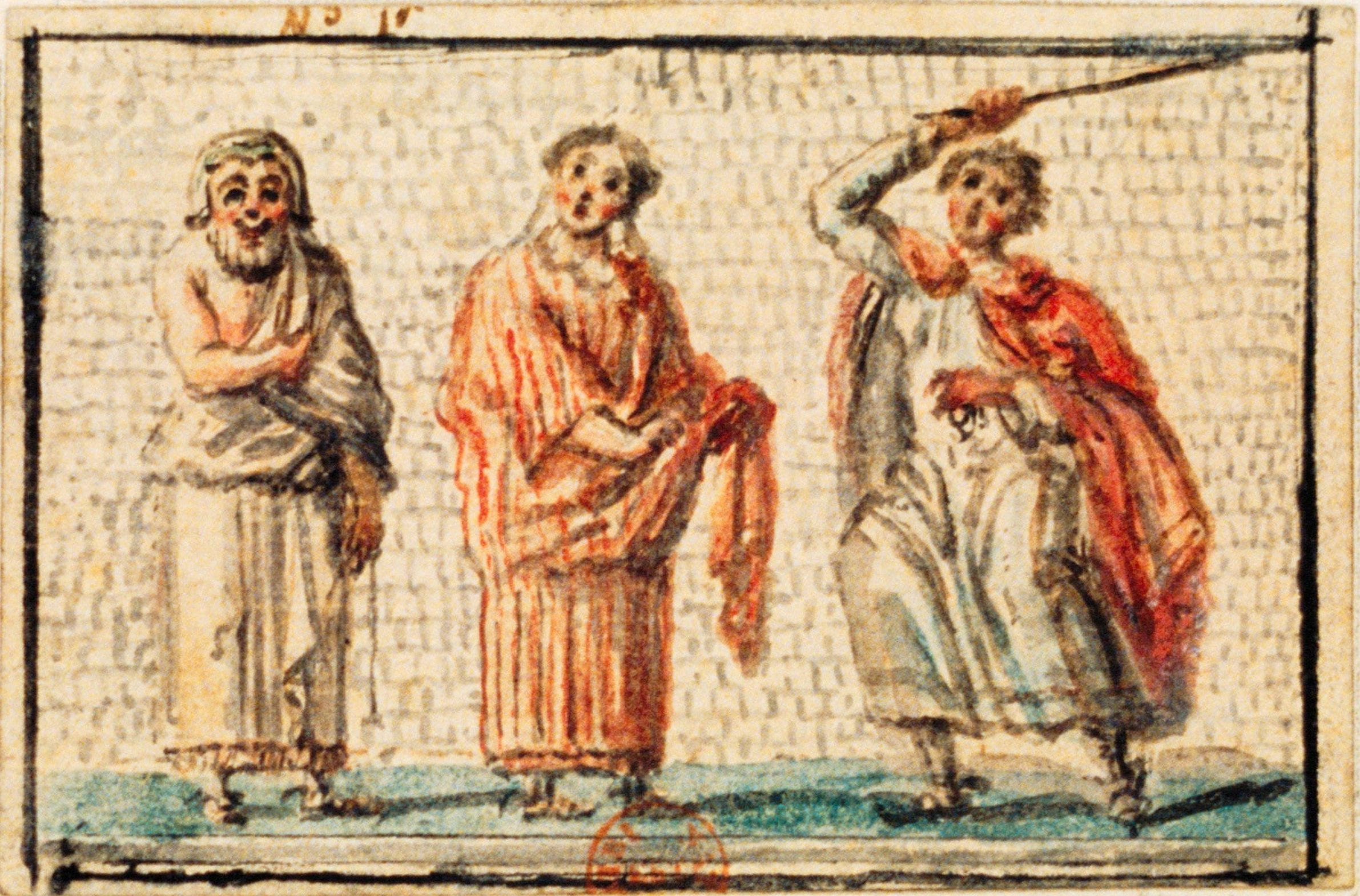 Scene of a comedy. Watercolored drawing, on the back of a playing card, reproducing a fragment of a mosaïc pavement found near Aix-en-Provence in January, 1790.